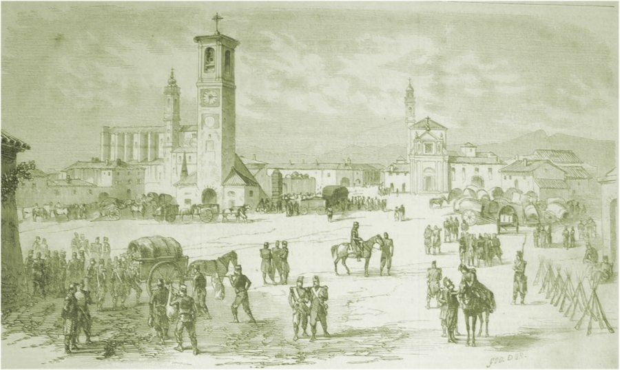 Second Italian War of Independence. The Imperial Guard and the Headquarters of the French army camped at Travagliato, June 17, 1859. Lithograph of the time reduced and modified.